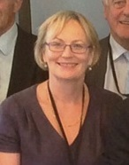 UK Conservative MEPs with EU Commissioner-Designate Lord Hill